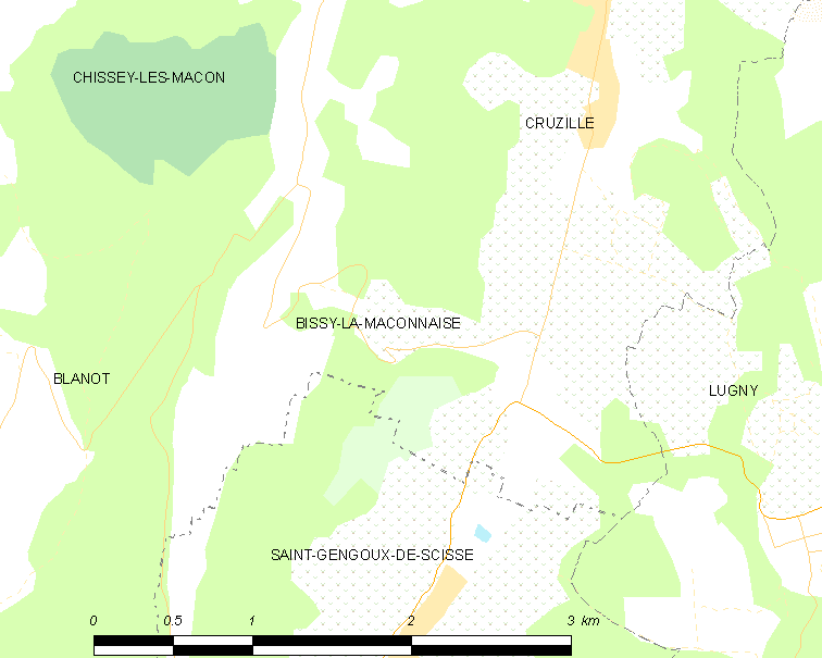 Map of French municipality